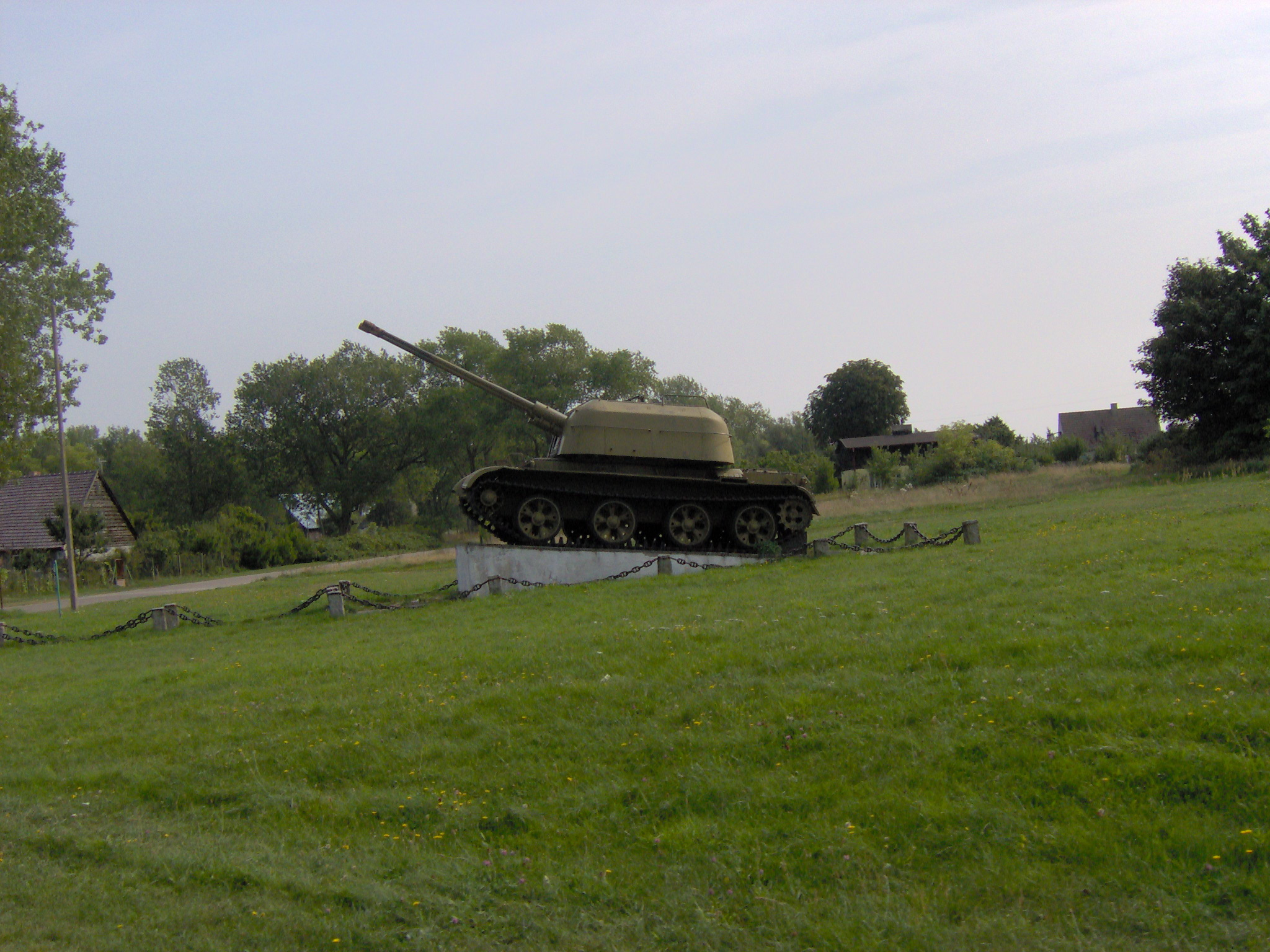 ZSU-57-2 in Wicko Morskie, the biggest anti-aircraft artillery range in Poland.